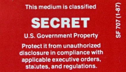 sticker for secret media